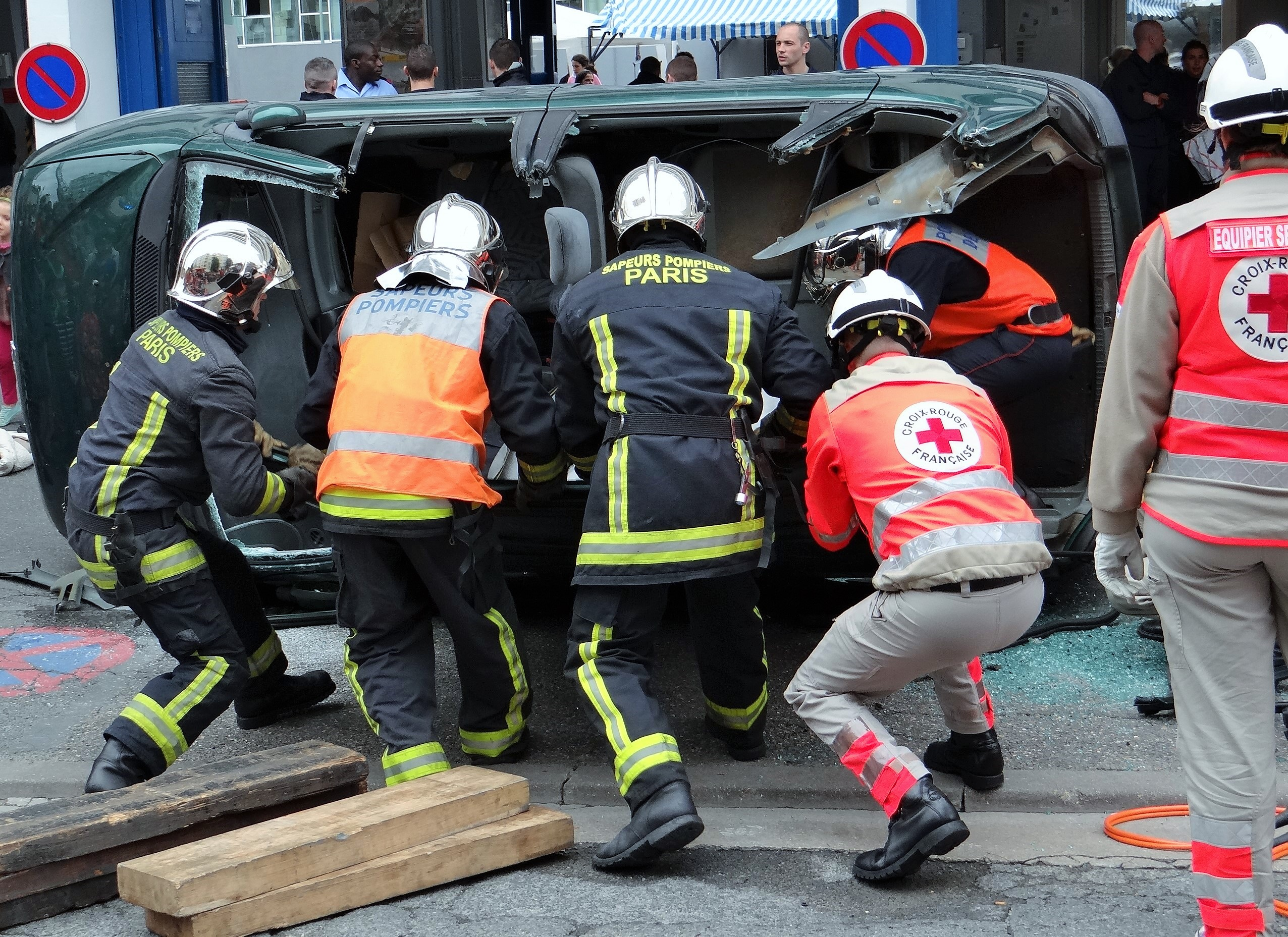 rescue demonstration to victim by the firemen of Paris and the red cross, Montrouge, France